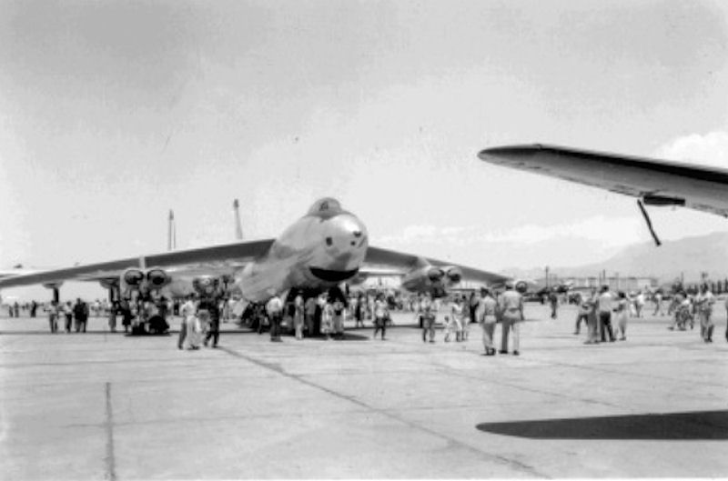 4925th Test Group Boeing B-47D Stratojet, Kirtland AFB, New Mexico